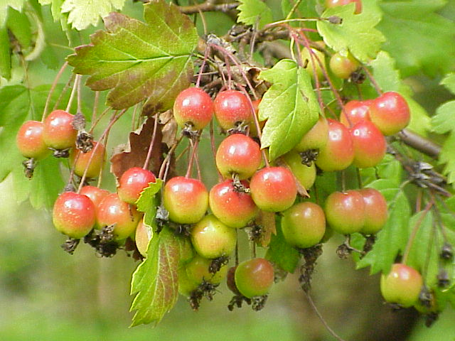 Species: Malus florentina Family: Rosaceae Image No. 1